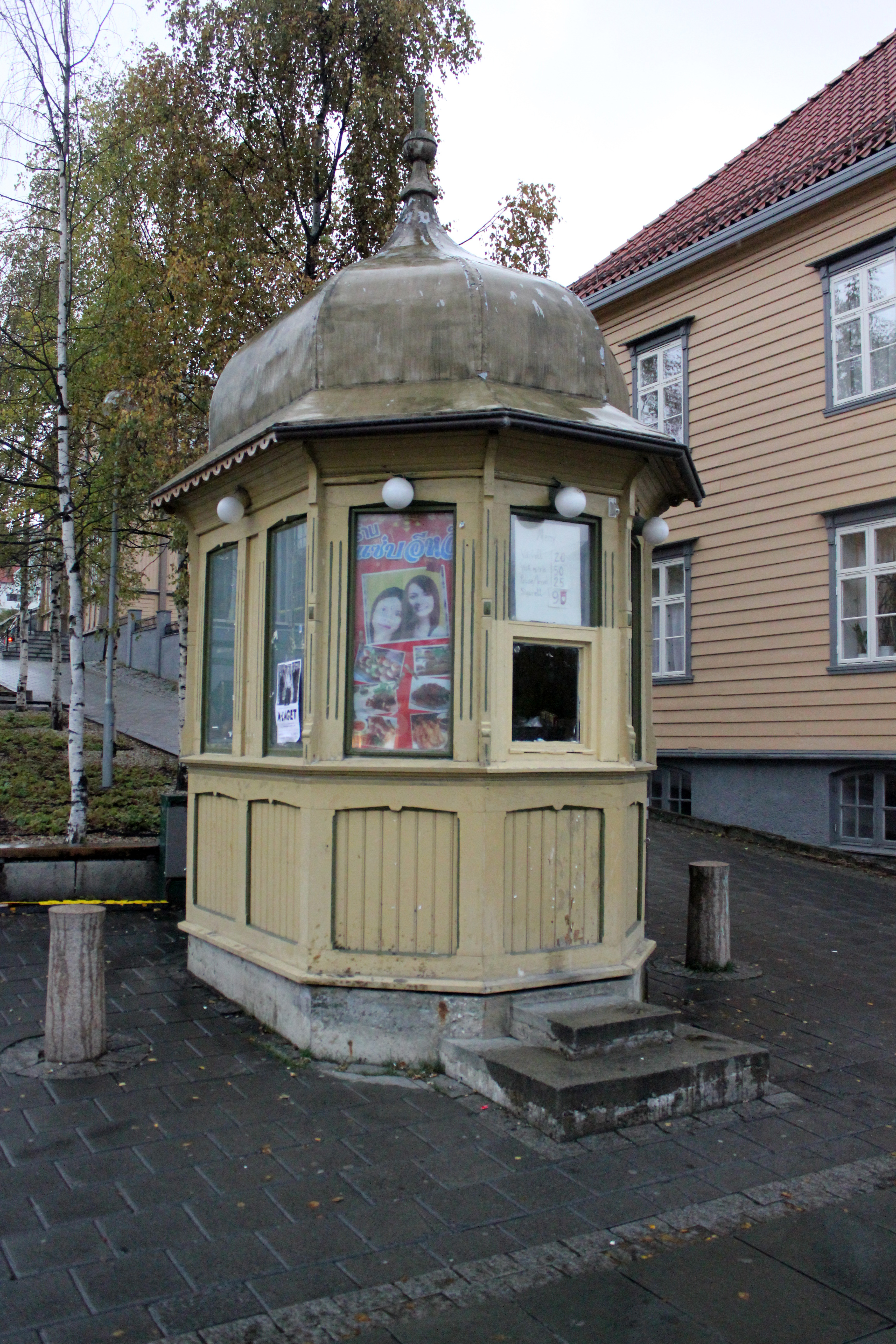 "The rocket" kiosk in Storgata Tromsø. Buildt in 1911Norsk bokmål: Løkkekiosken - Raketten - Storgata 94B. Bygd in 1911, utpekt til nasjonalt viktig kulturminne av Riksantikvaren i 2009.